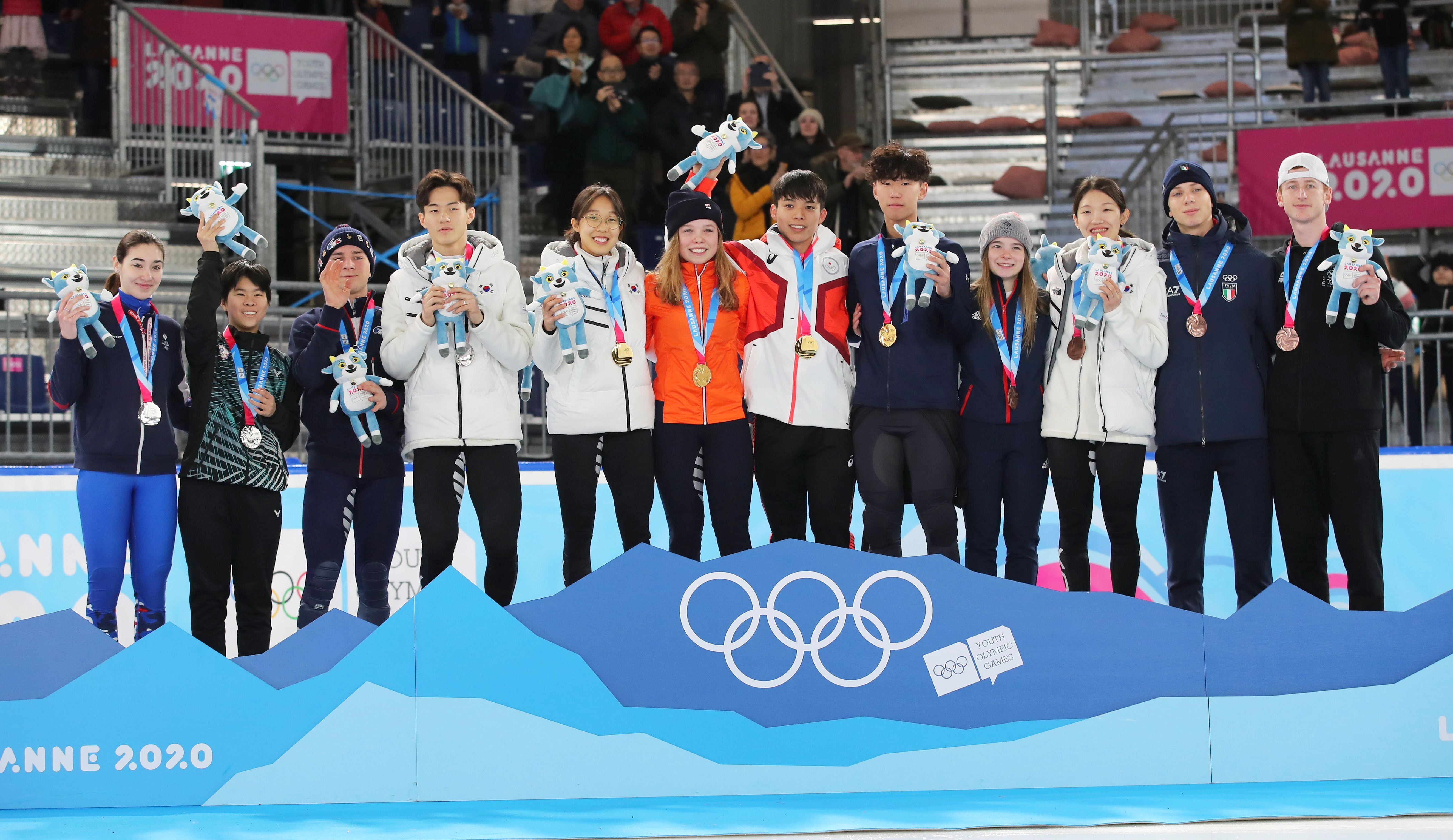 Victory Ceremony of the Short Track Speed Skating – Mixed NOC Team Relay at the 2020 Winter Youth Olympics in Lausanne on 22 January 2020.